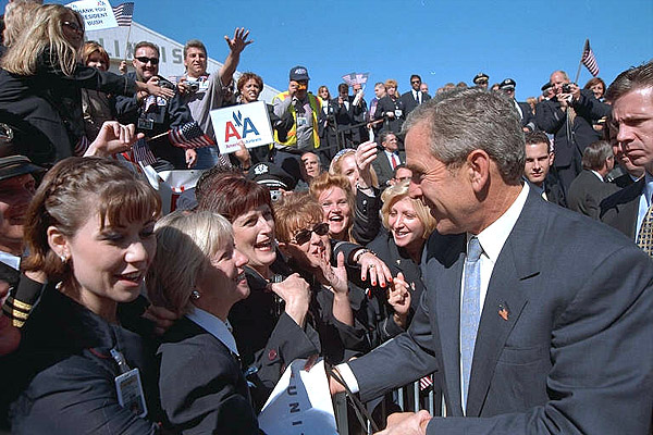 Greeted by a roaring crowd of good cheer, President Bush visits Airline employees at Chicago's O'Hare International Airport.